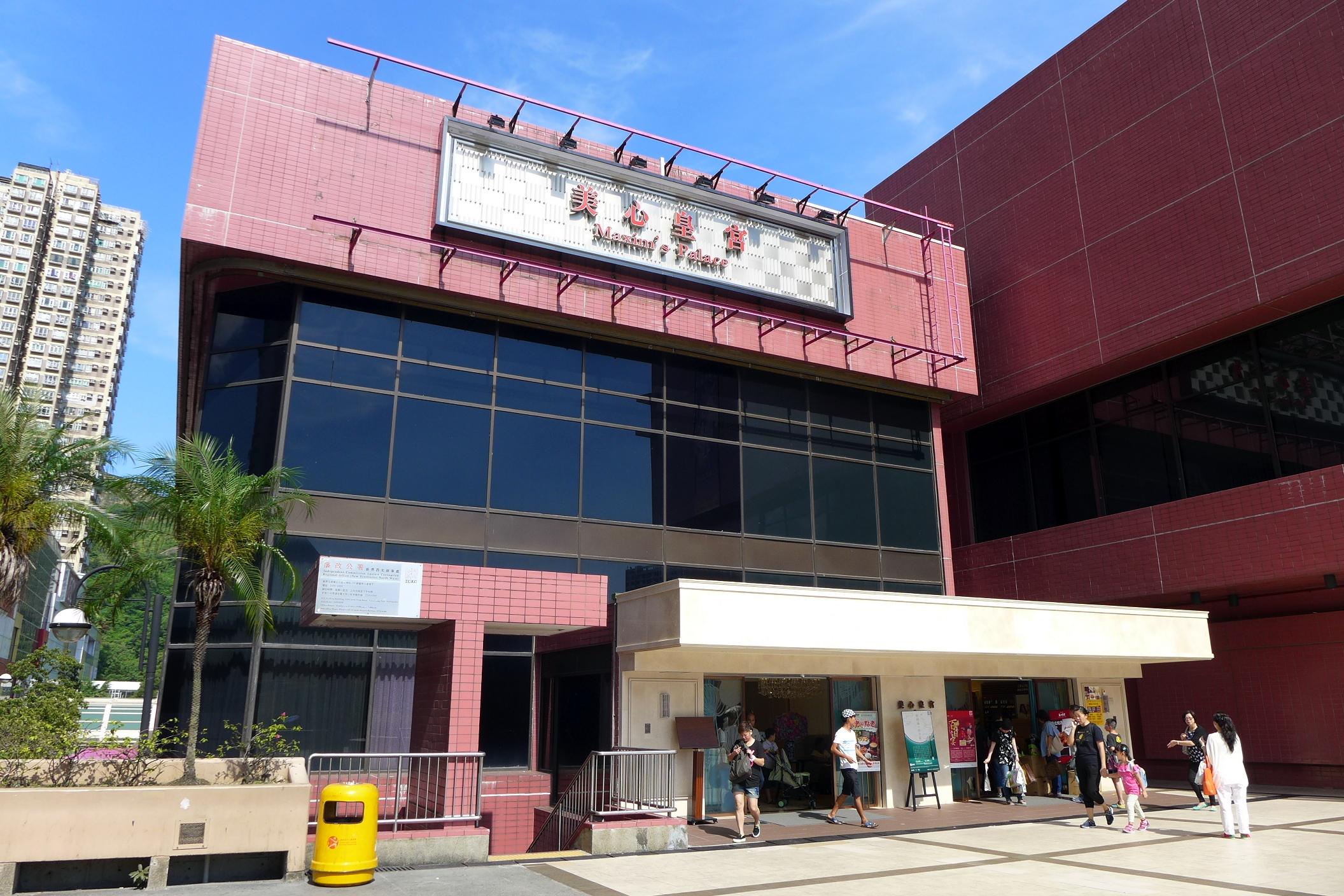 Maxim Palace in Tuen Mun Town Hall